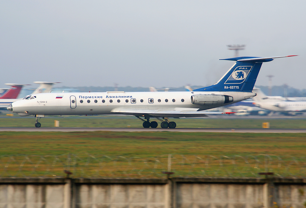 Perm Airlines Tupolev Tu-134 RA-65775 arrives Moscow-Domodedovo Airport